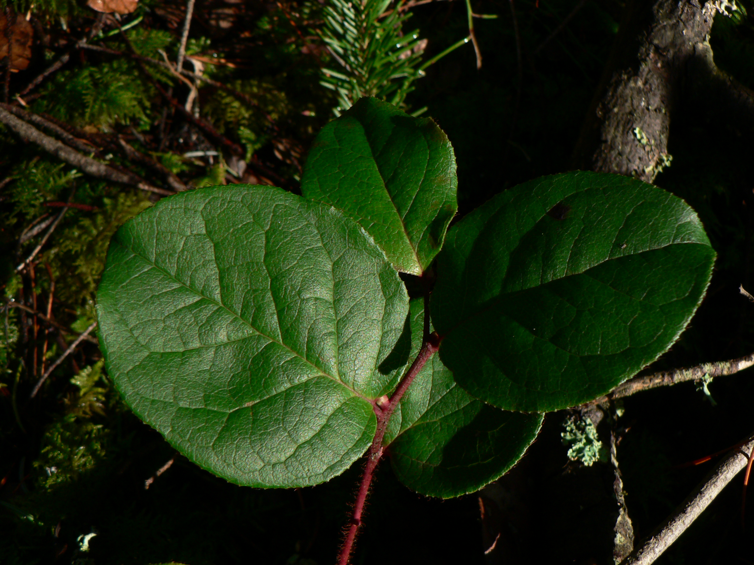 young Salal